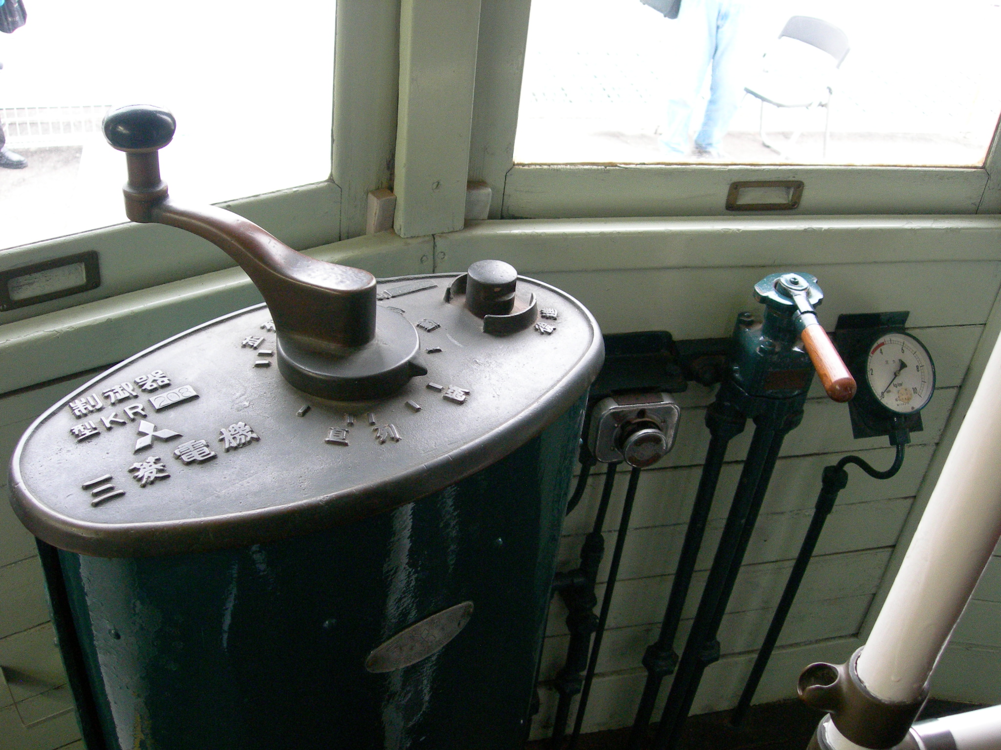 Cab of Osaka City Tram #1644. taken in 2010.